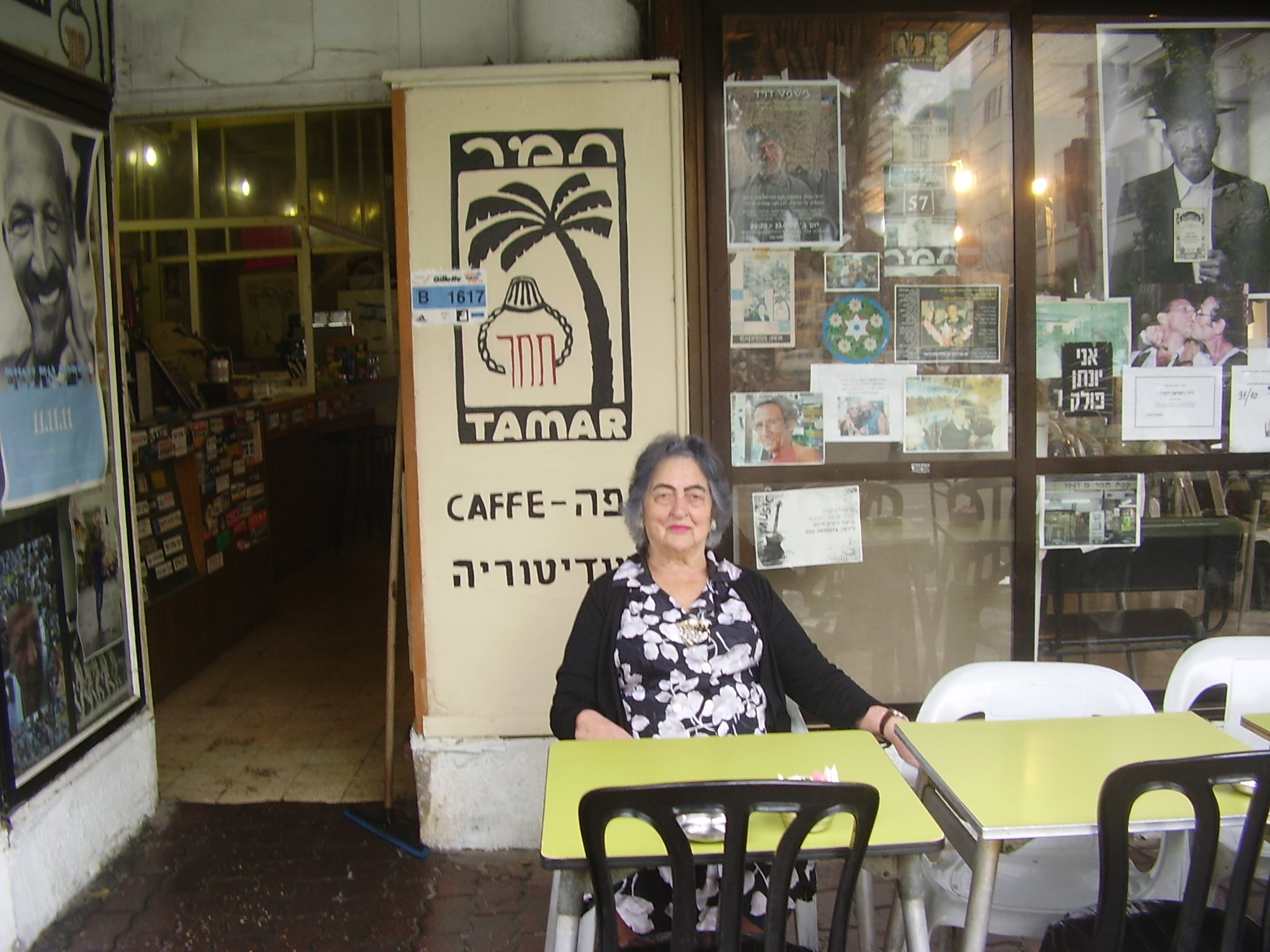 caffe tamar in tel aviv